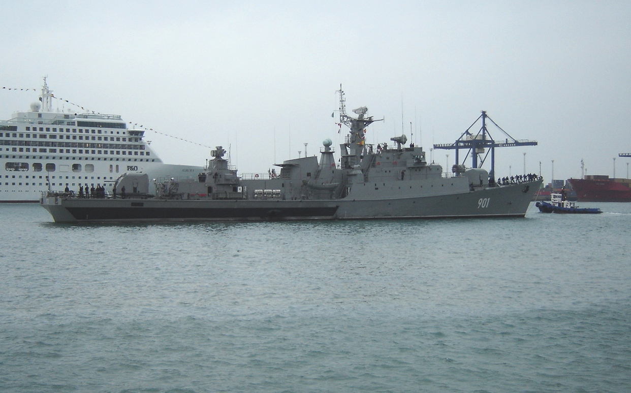 Algerian frigate project 1159-T Mourad Rais, former the Soviet ship SKR-482, in Cádiz.